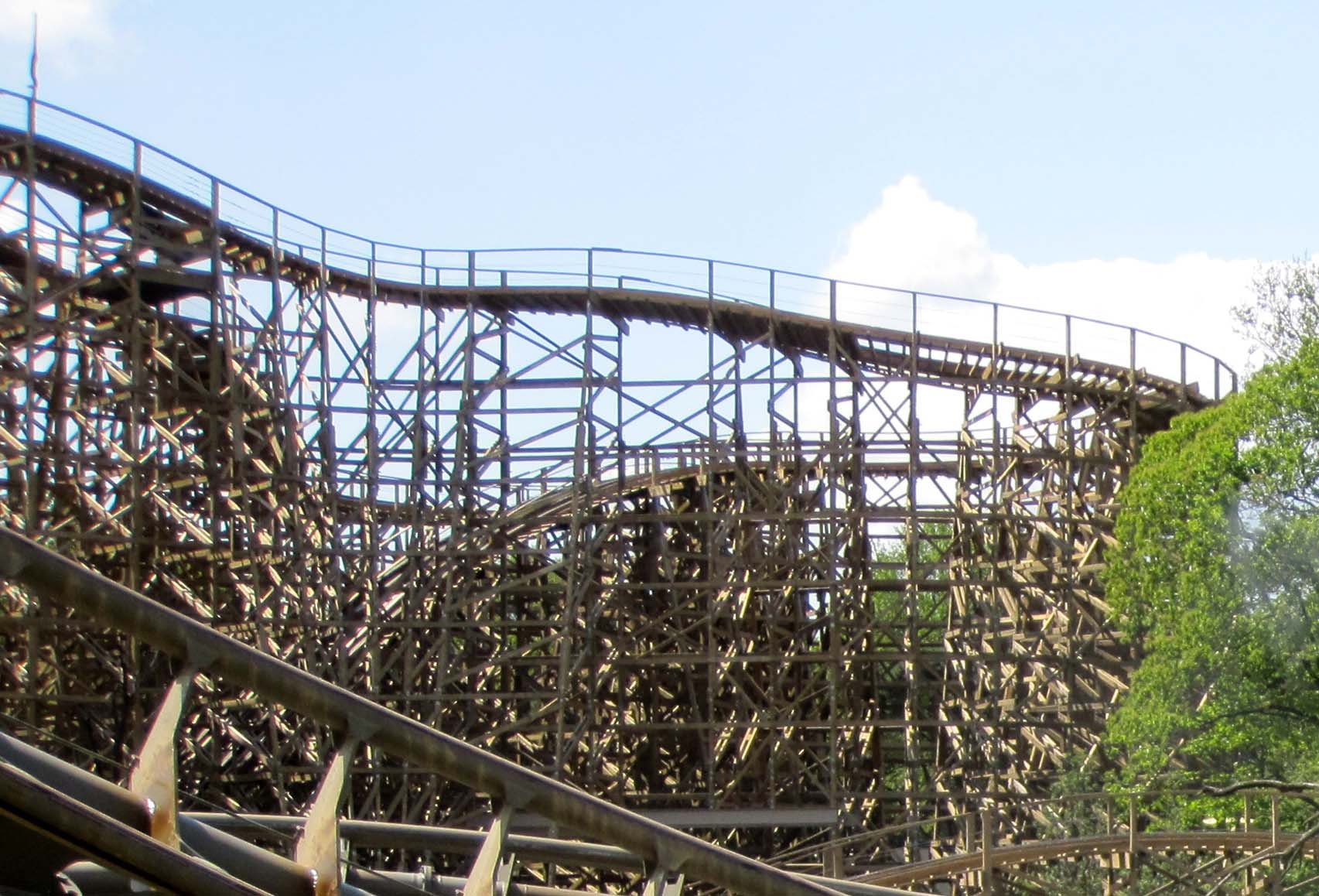 Photo of roller coaster